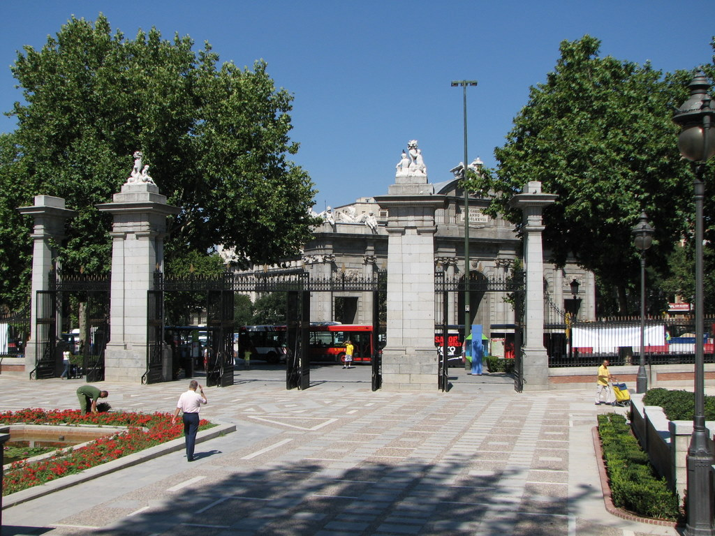 View of the Puerta de la Independencia ("Gate of the Independence") from the Avenida de México ("Mexico Avenue") in the Retiro Park (Jardines del Buen Retiro) in Madrid (Spain). In the background, the Puerta de Alcalá.